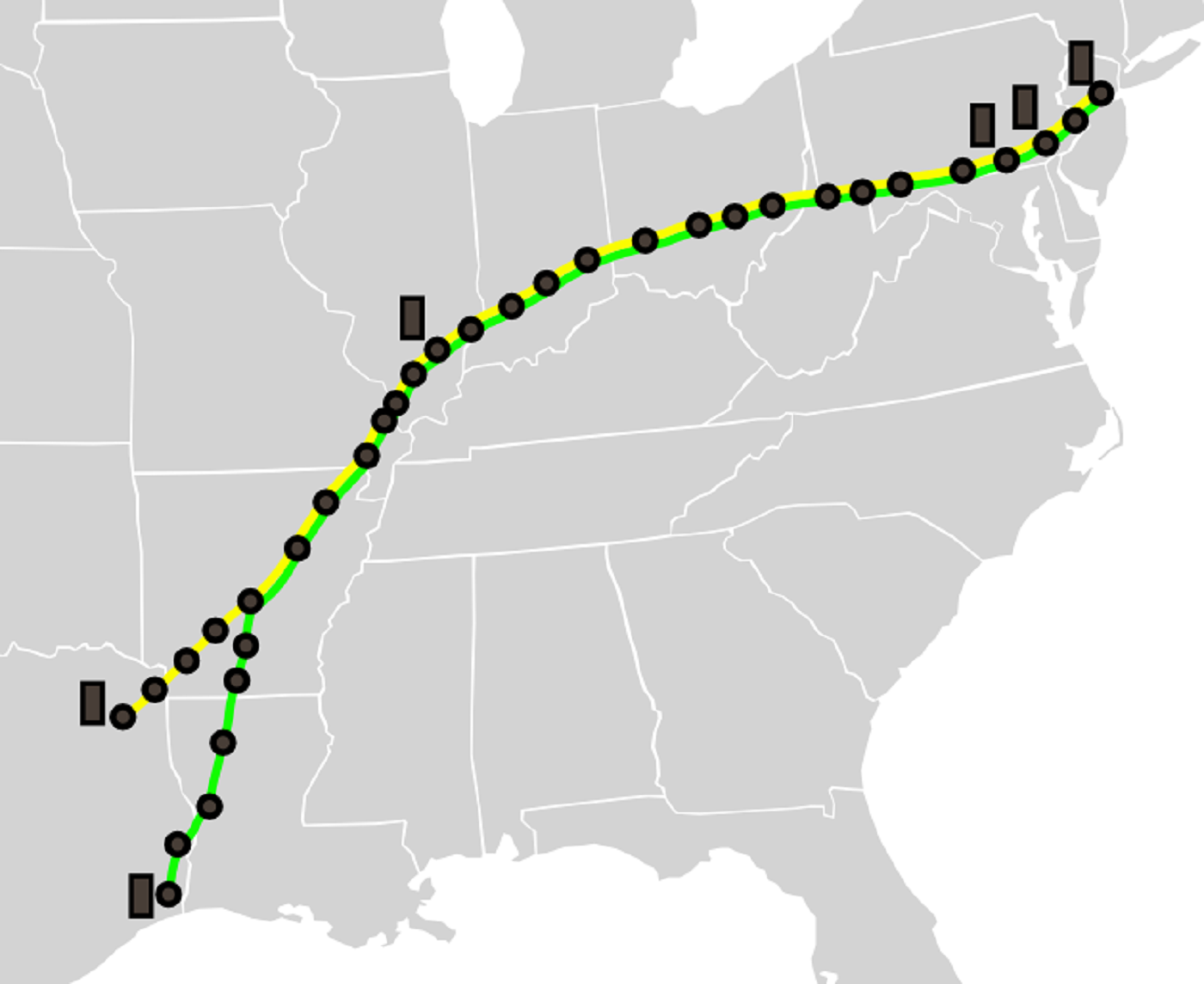 Big and Little Inch pipelines map; pipelines data from Historic American Record, HAER TX-76